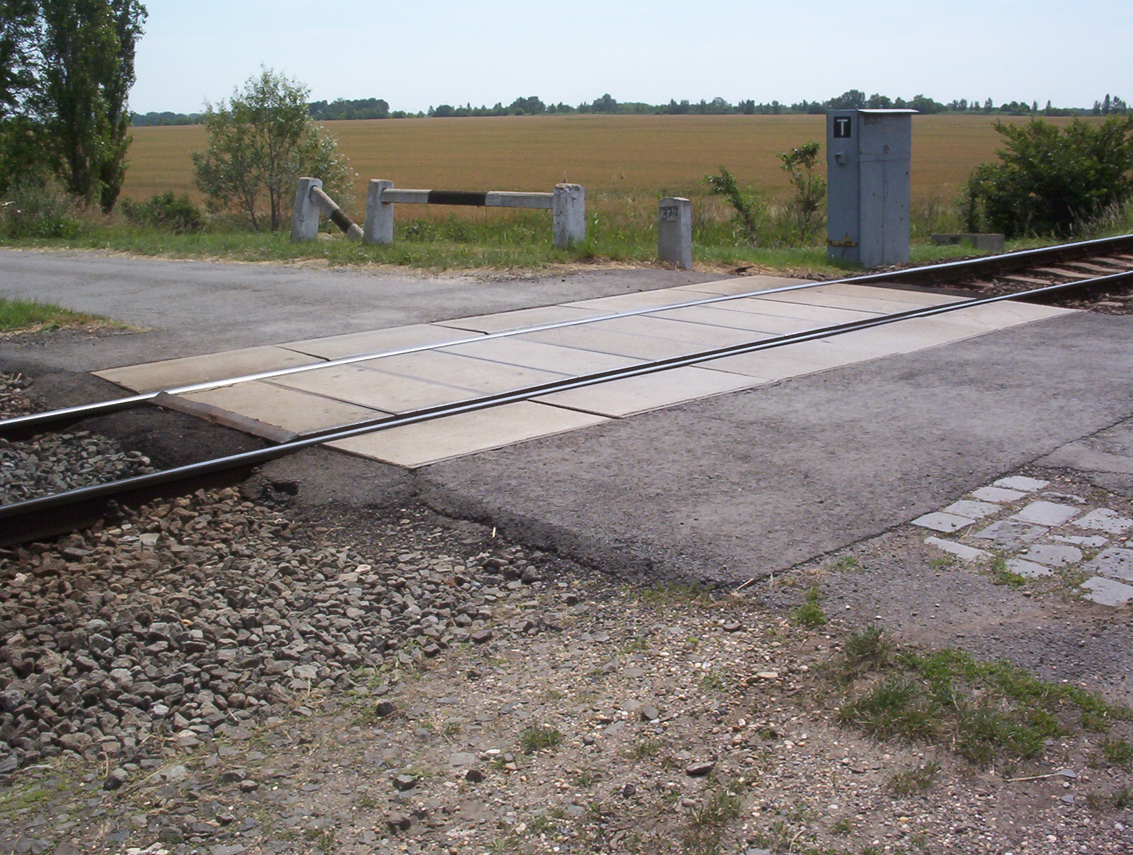 Bodan-Semperit type level crossing on the Budapest–Kelebia railway line, near Kiskunlacháza, Hungary